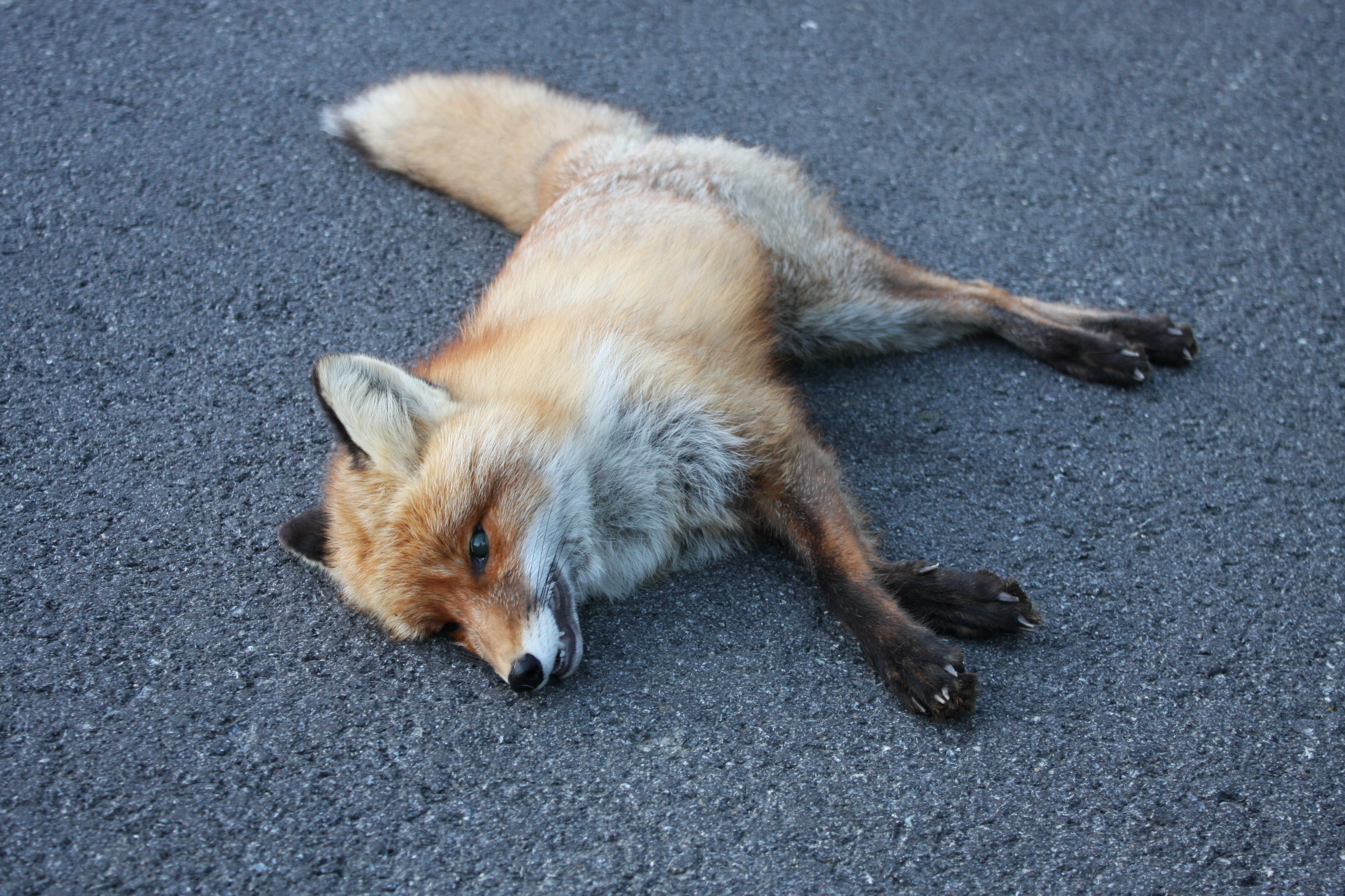 Unfortunately I ran over a norwegian red fox. I took a thin tree trunk nearby and carryed it up in the forest and ensured that it was dead.